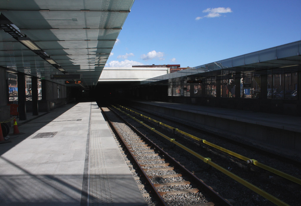 The new Ensjø Metrostration seen from centrum-bound platform